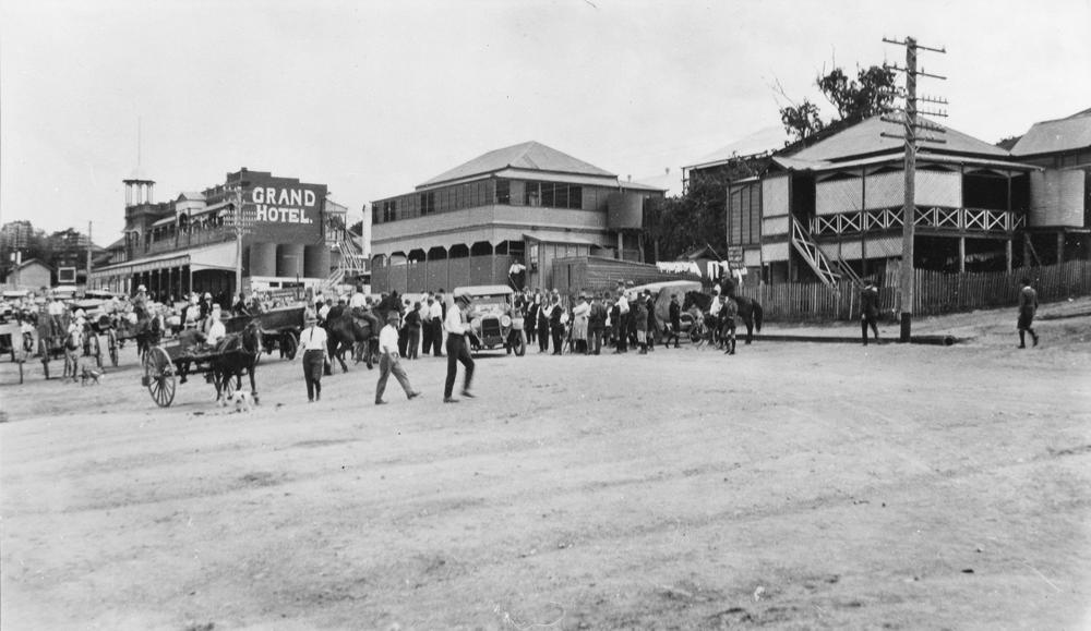 Plenty of activity in James Street, Mount Morgan, 1924 Motor vehicles and horsedrawn vehicles mingle with pedestrians in the street. The Grand Hotel is in the background and two high-set homes are to the right of the hotel.